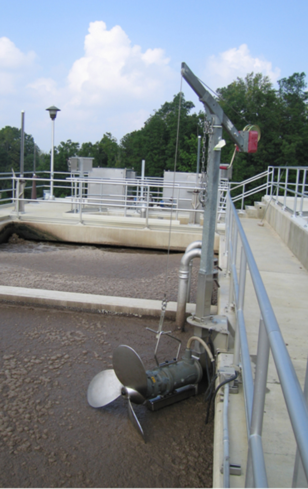 Submersible mixer at wastewater treatment plant